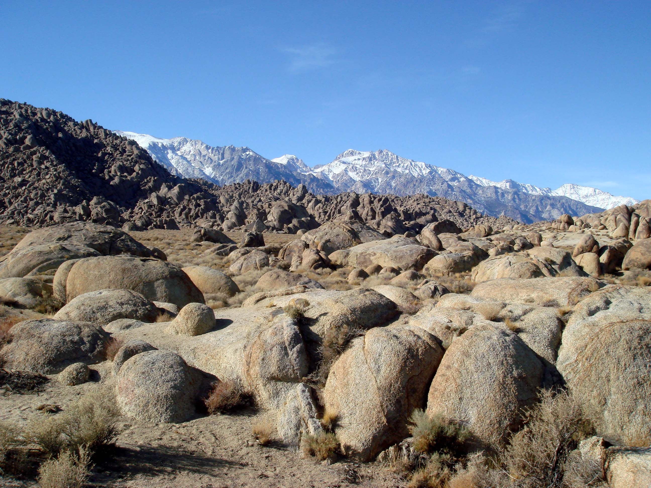 Vast stretch of Alabama Hills, leading into the Sierra Nevada.